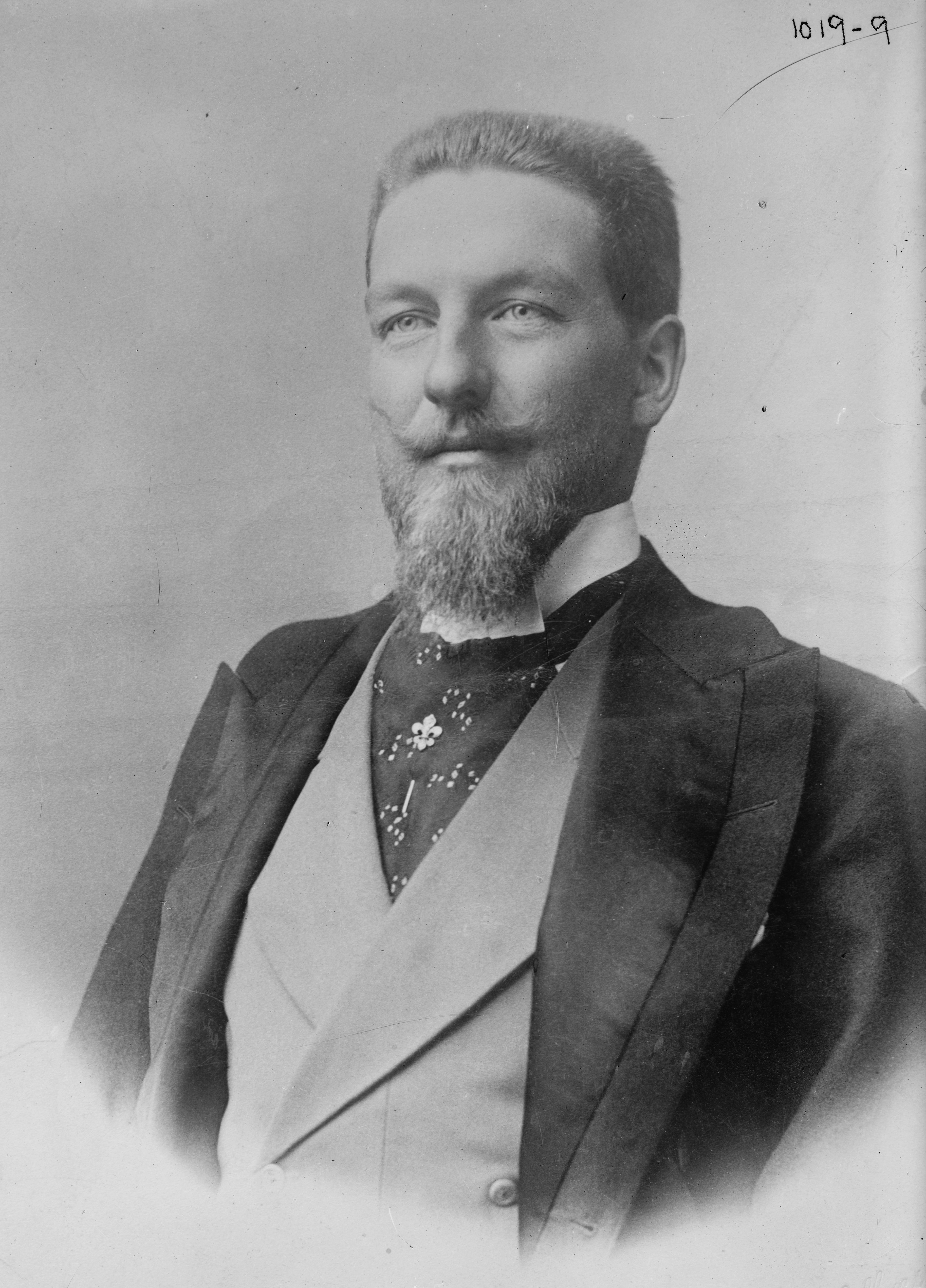 Philippe, Duke of Orléans (1869 - 1926), claimant to the throne of France from 1894 to 1926